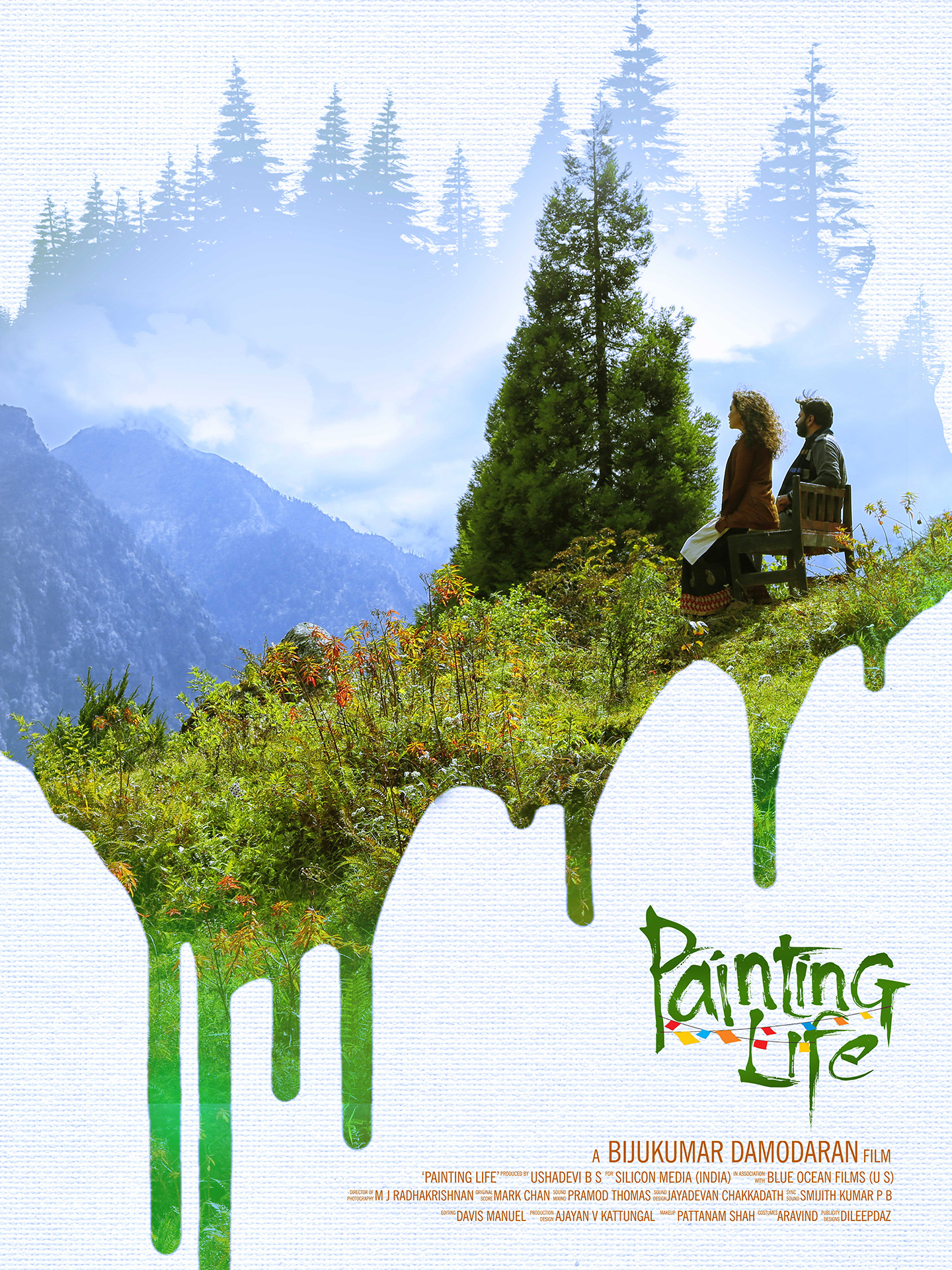 Poster for the movie Painting Life